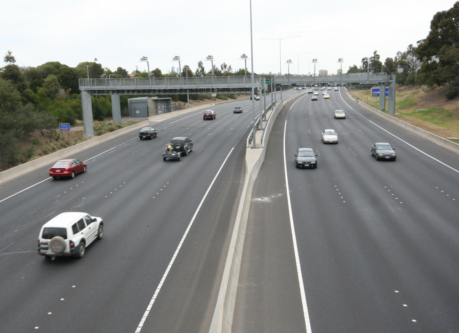 Toll Gantries on CityLink / Tullamarine Freeway - Melbourne, Victoria, Australia